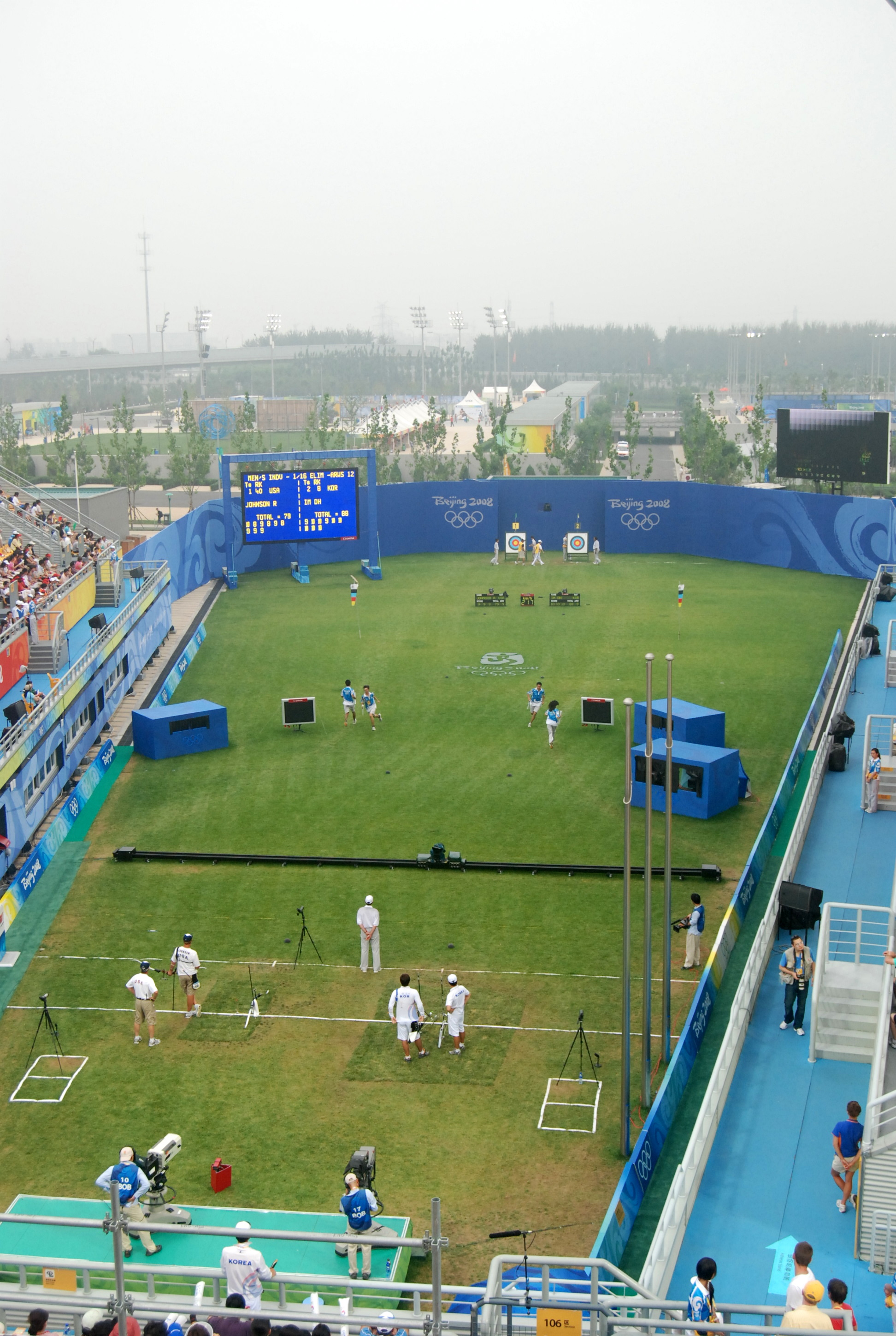 Olympic Green Archery Field, Archery at the 2008 Summer Olympics-Men's individual